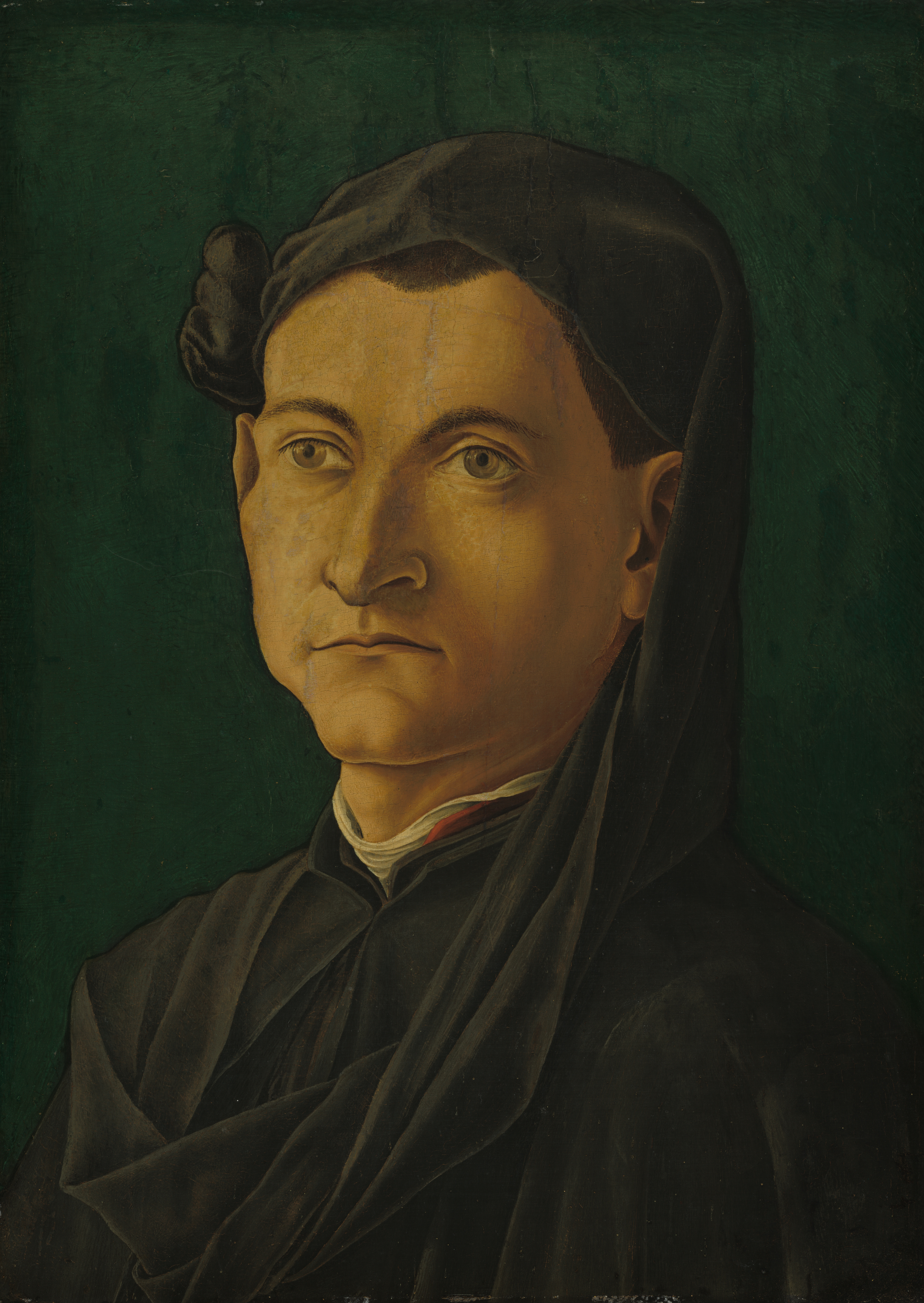 Portrait of a Man